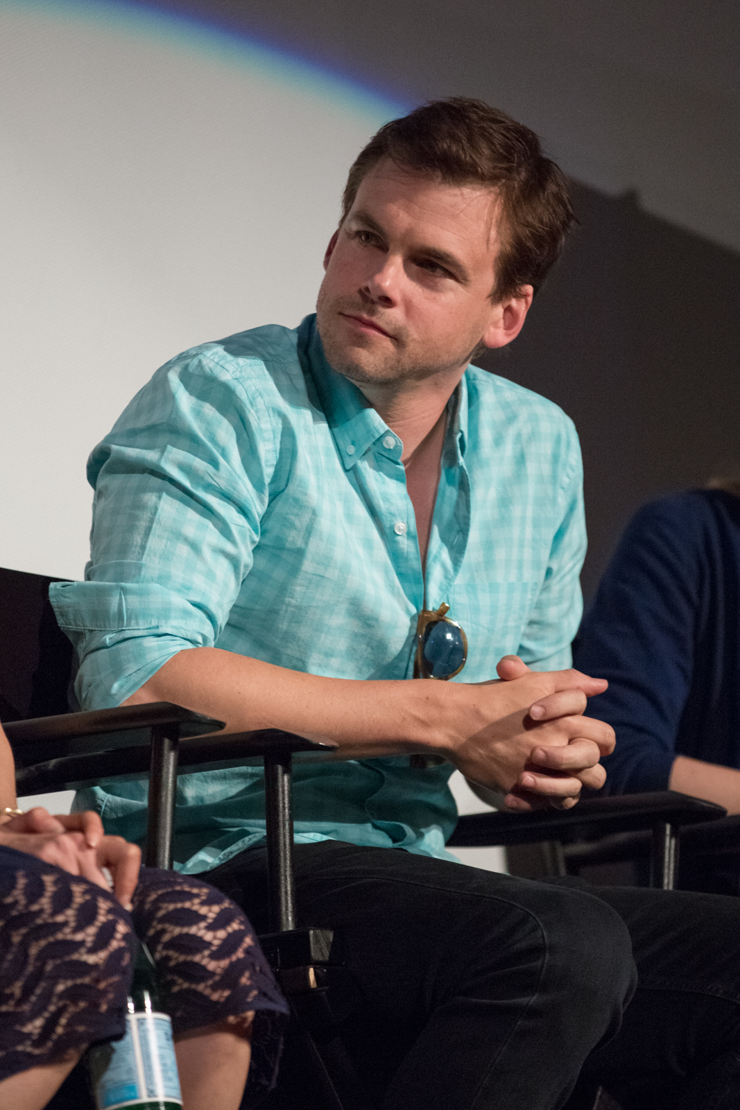 Tommy Dewey at the ATX Festival presentation for the TV show Casual